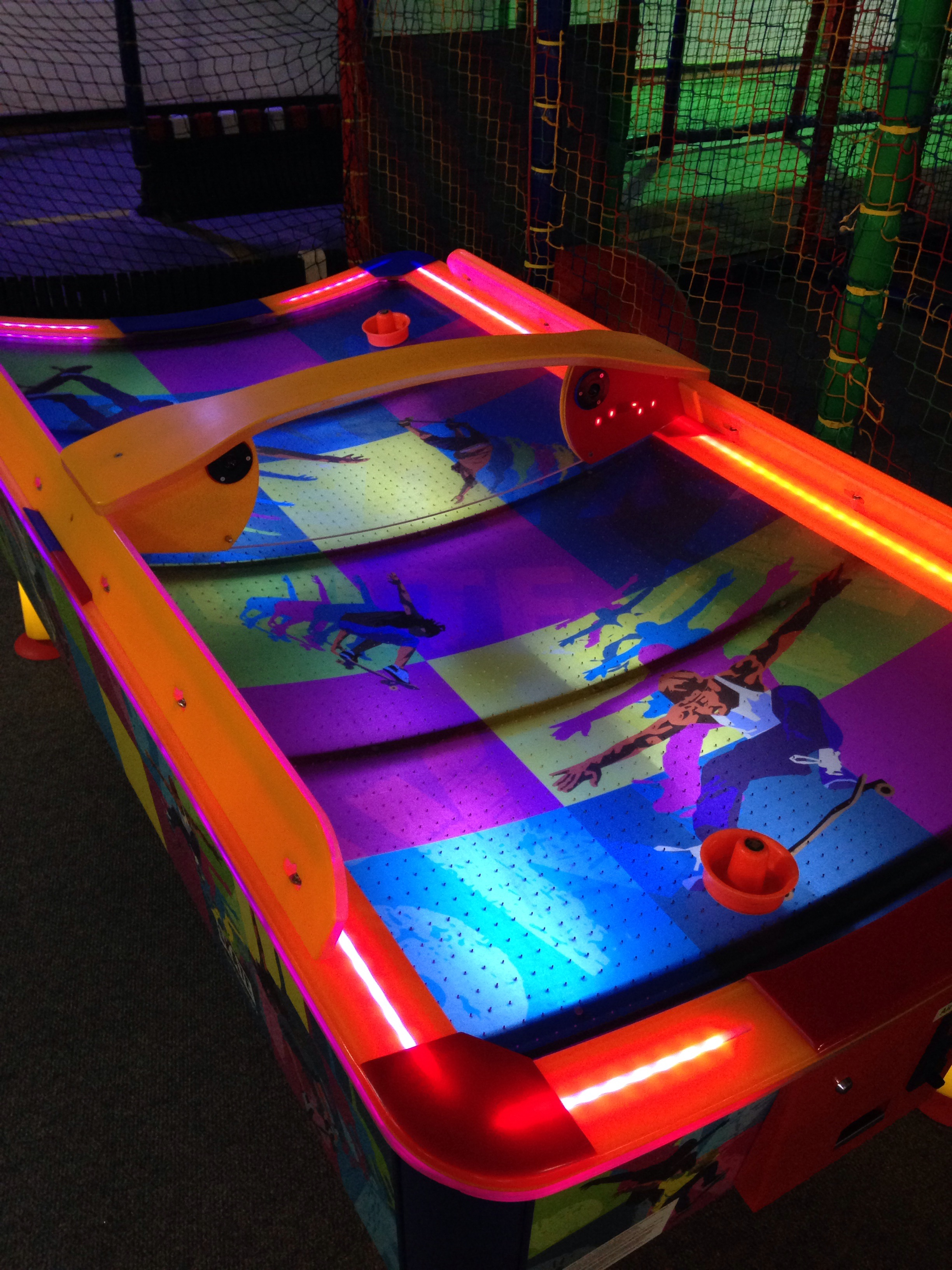 Airhockey